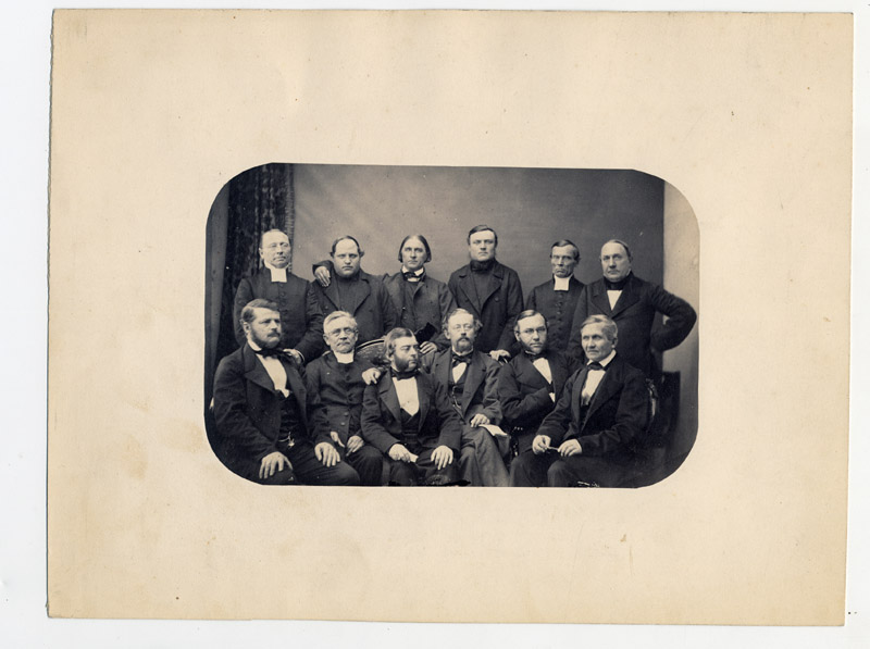 Group portrait of 12 of the 48 deputies of the January Committee in 1862, preparing for the first meeting of the Diet of Finland in 1863, one of a set of four (+1) images.